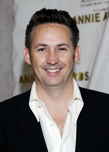 Comedian Harland Williams at the 2006 Annie Awards red carpet at the Alex Theatre in Glendale, California.